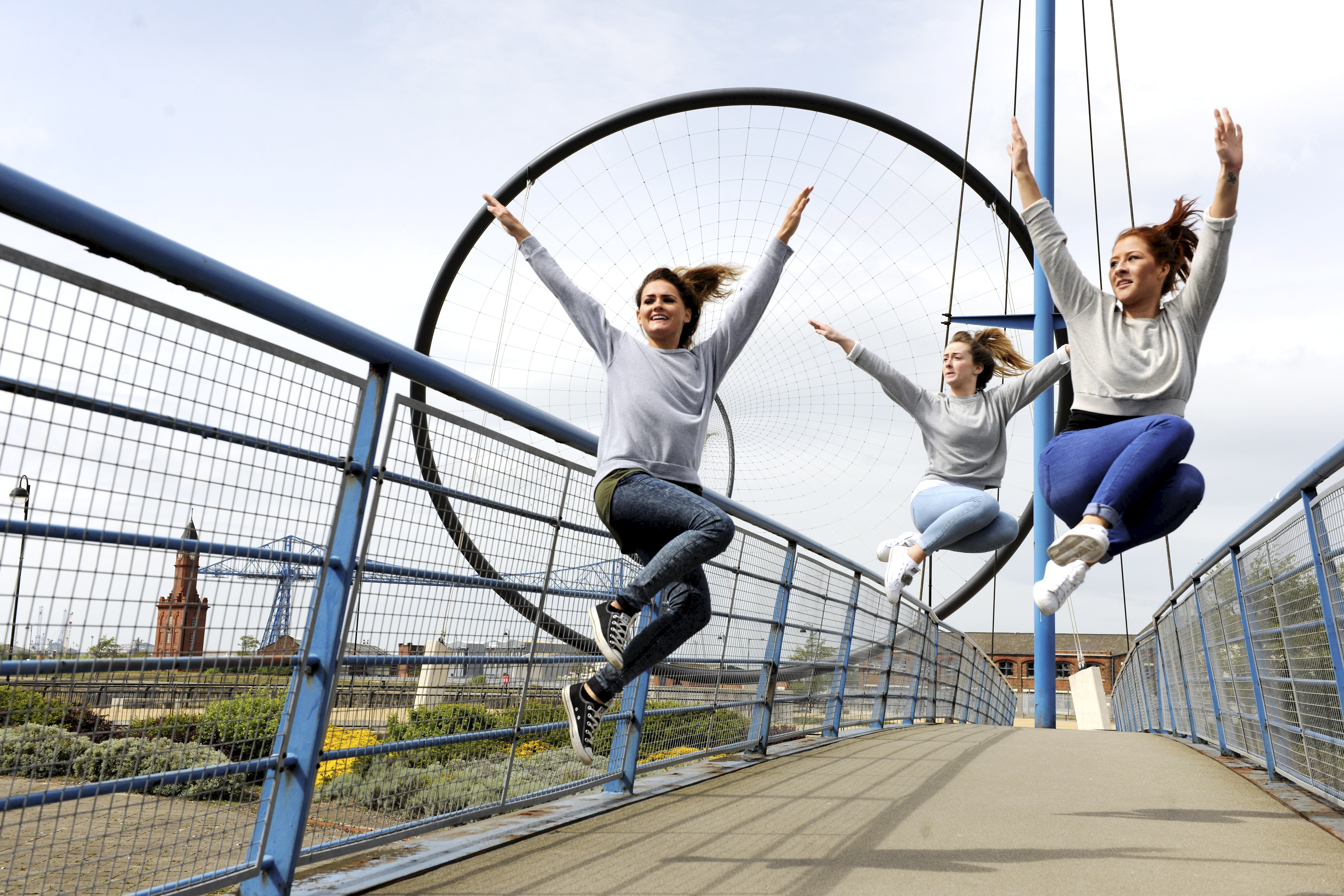 SAM, dance students at Temenos, Heike Salzer